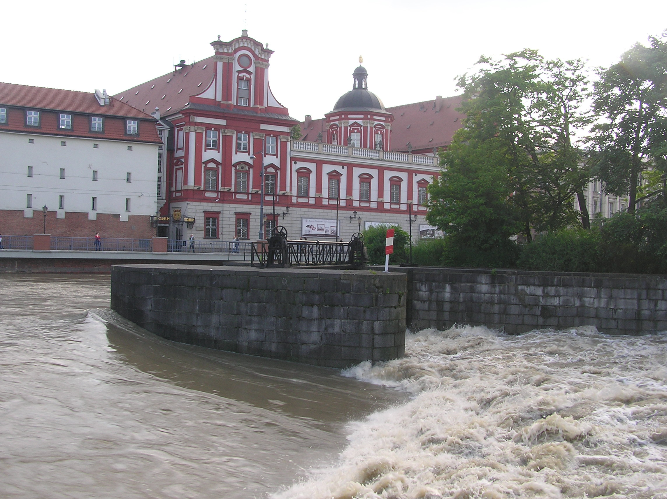 Św. Macieja weir